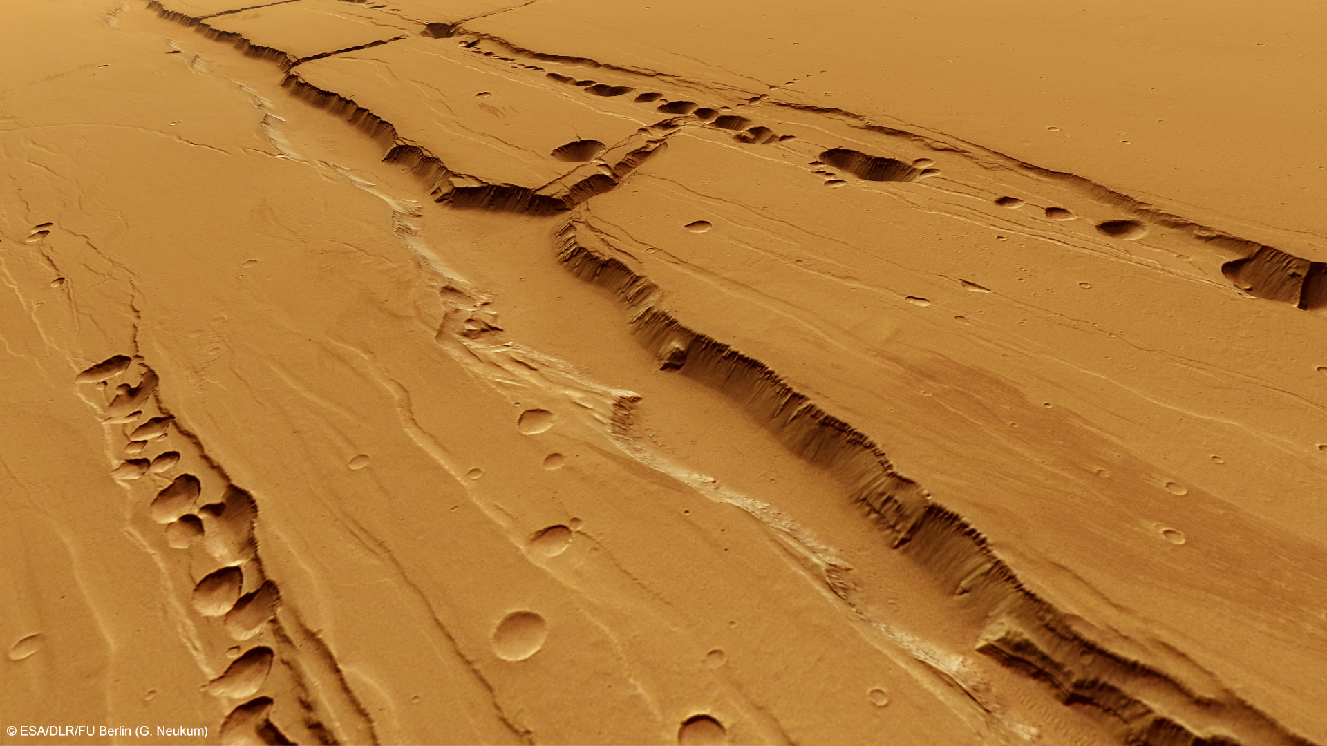 Computer-generated perspective view of a portion of Tractus Catena. It is based on images from the the HRSC instrument aboard Mars Express.